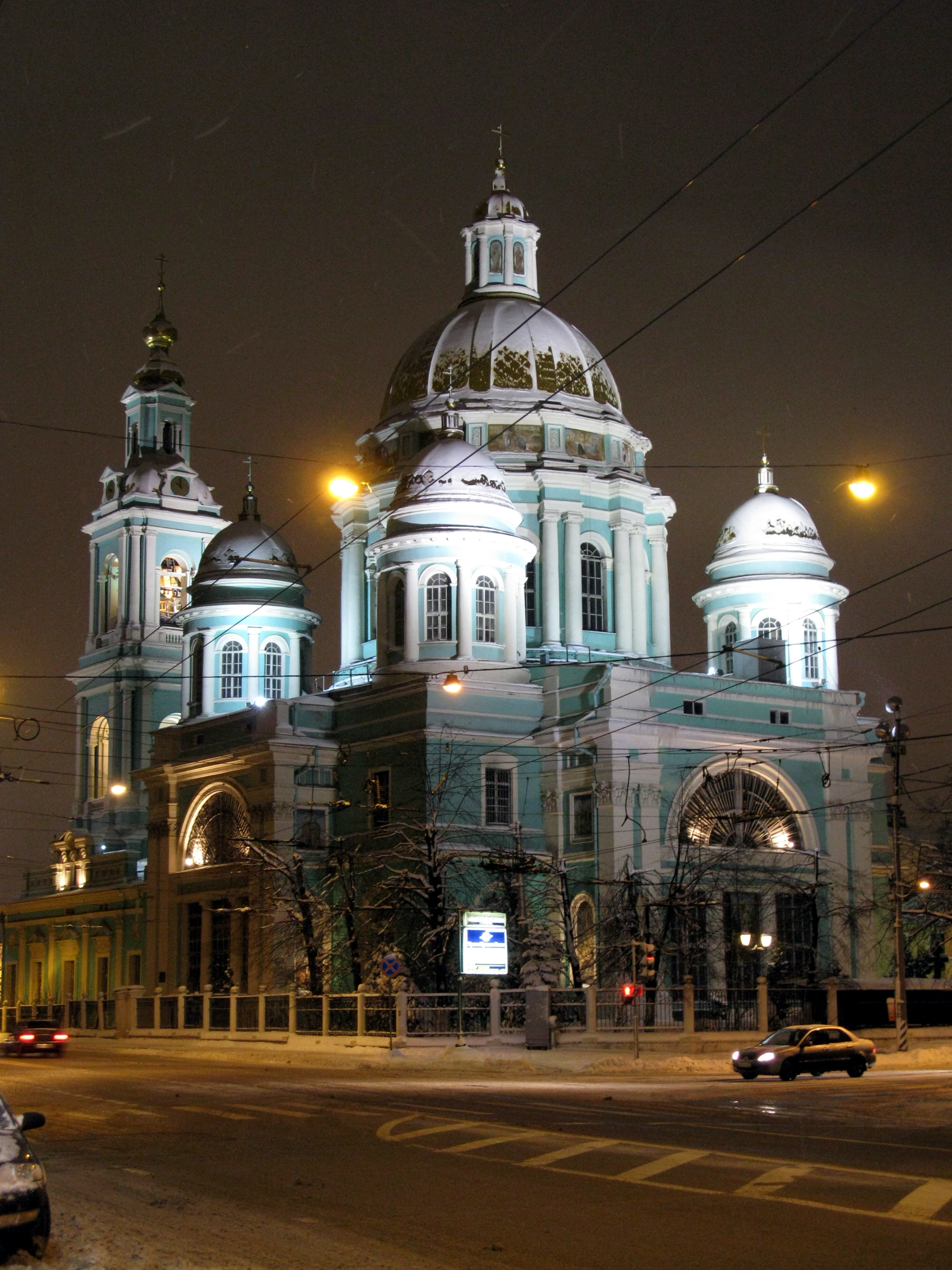 Bogoyavlensky (Epiphany) cathedral in Yelokhovo